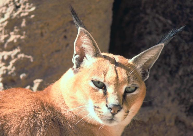 Caracal photographed in Africa